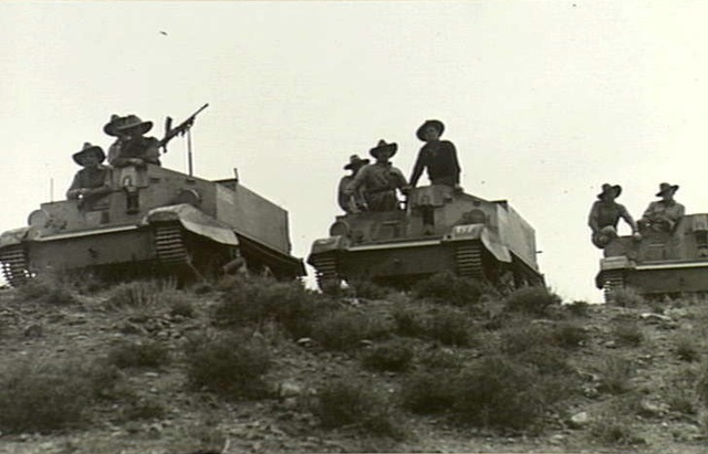 Bren carriers of the Australian 2/4th Infantry Battalion at Baalbek, Syria, October 1941.